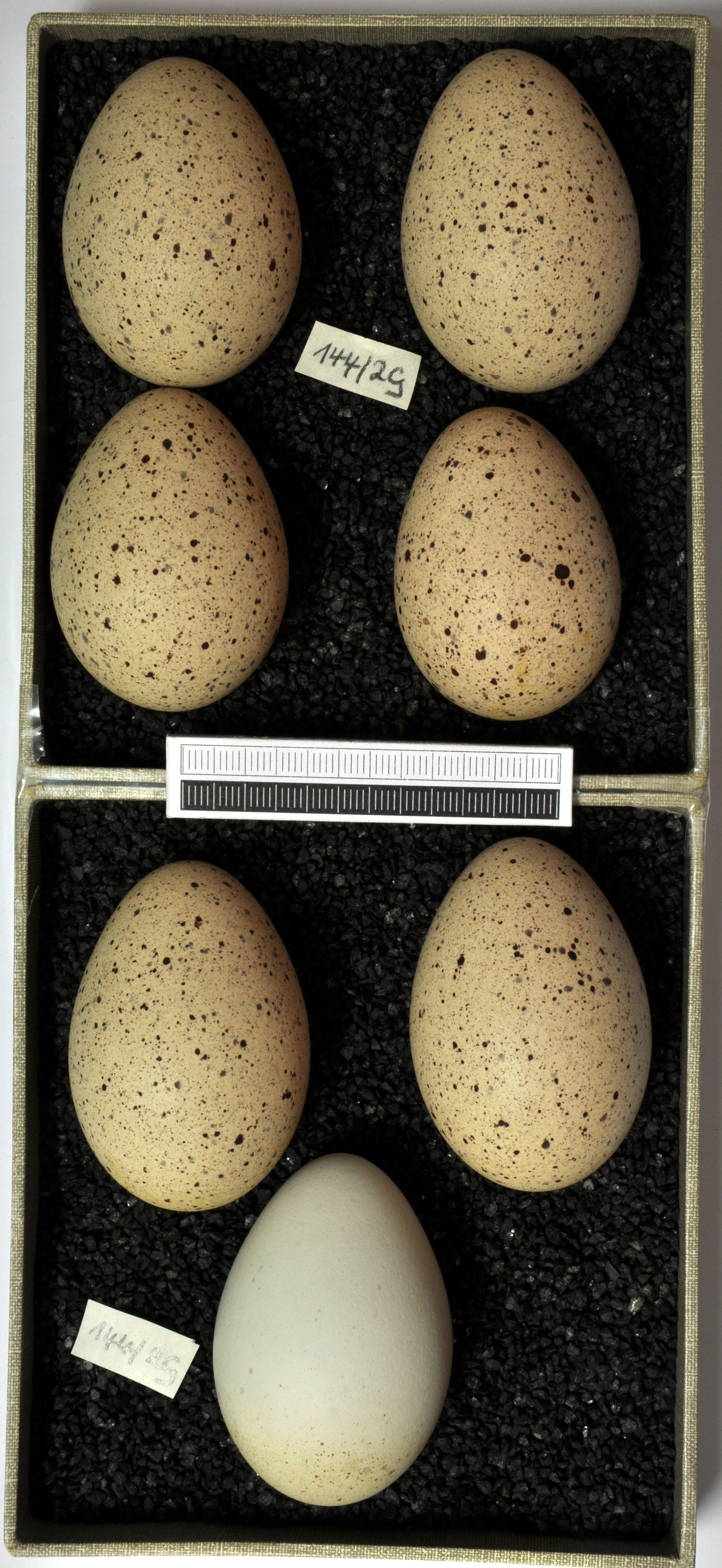 Eurasian coot Fulica atra, egg, Coll. Museum Wiesbaden, Origin: Ismaning, Bavaria, 26.05.1973, leg. W. Abelmann